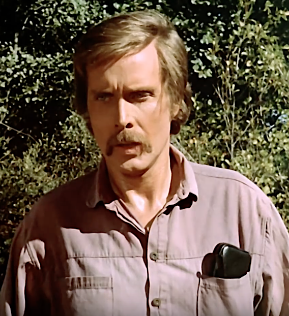 Jack Taylor in Night of the Sorcerers (theatrical trailer)